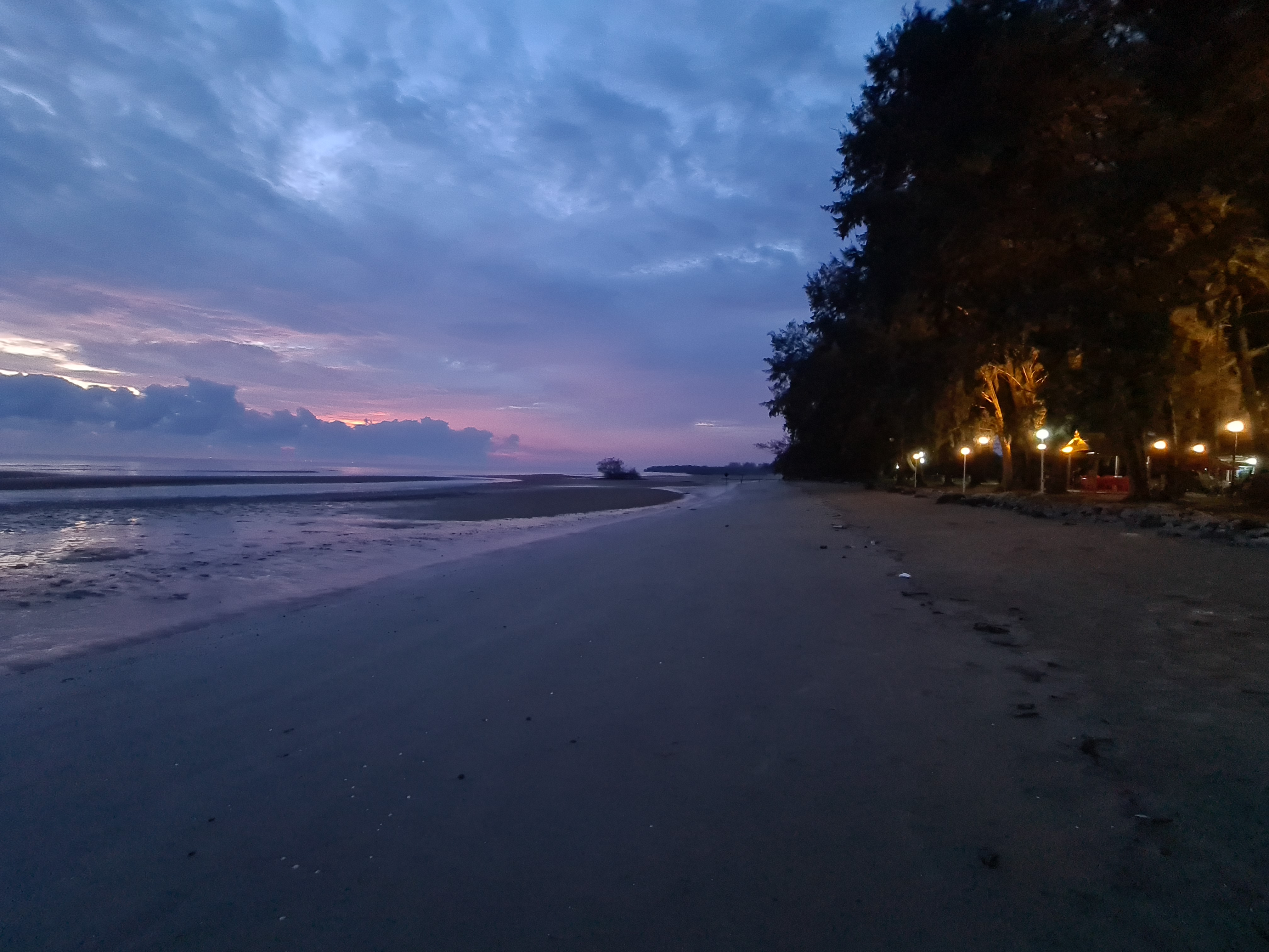 Morib beach sunset